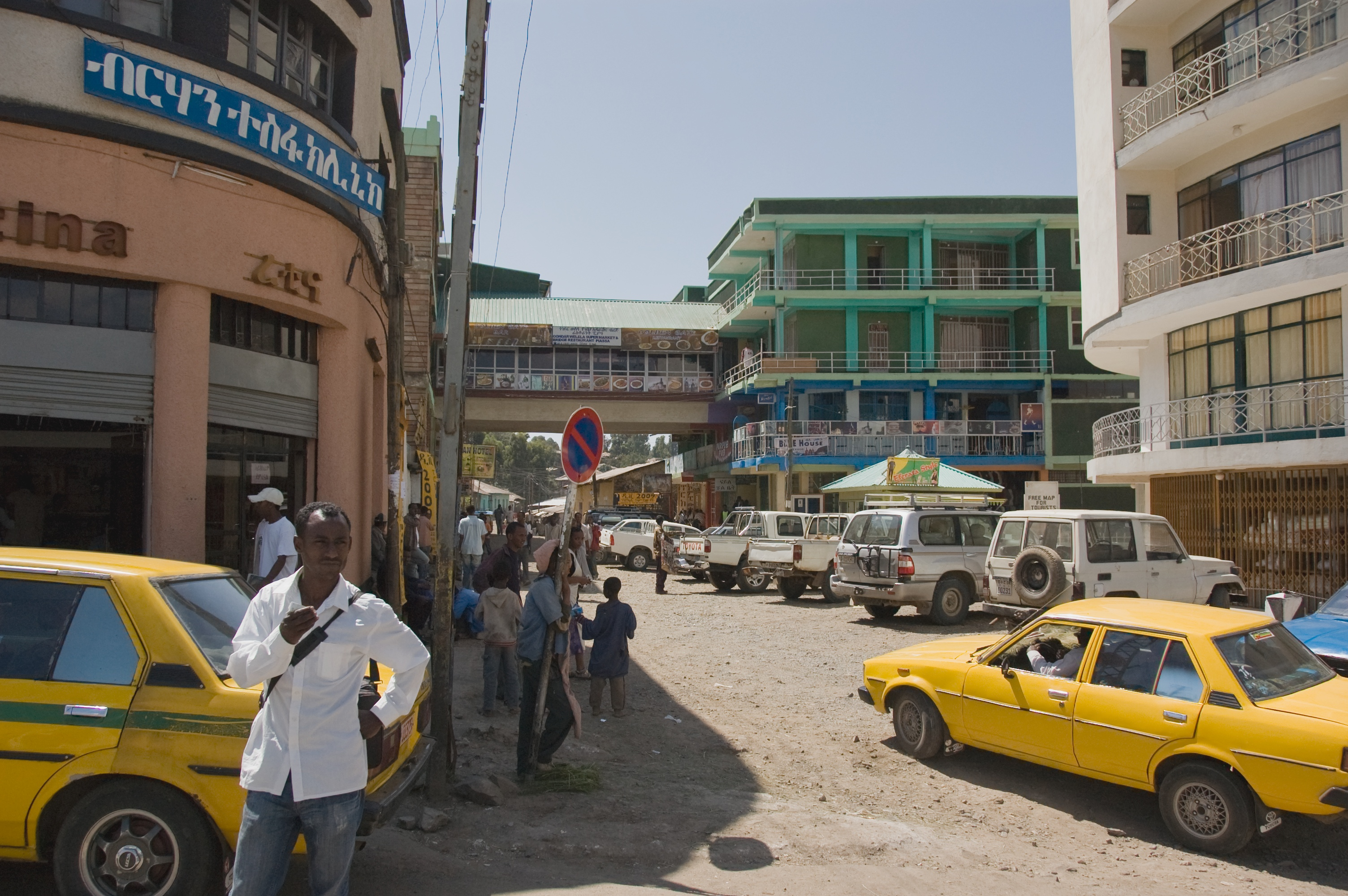 The Italians built this part of Gondar during their occupation of Ethiopia between 1936 and 1941.